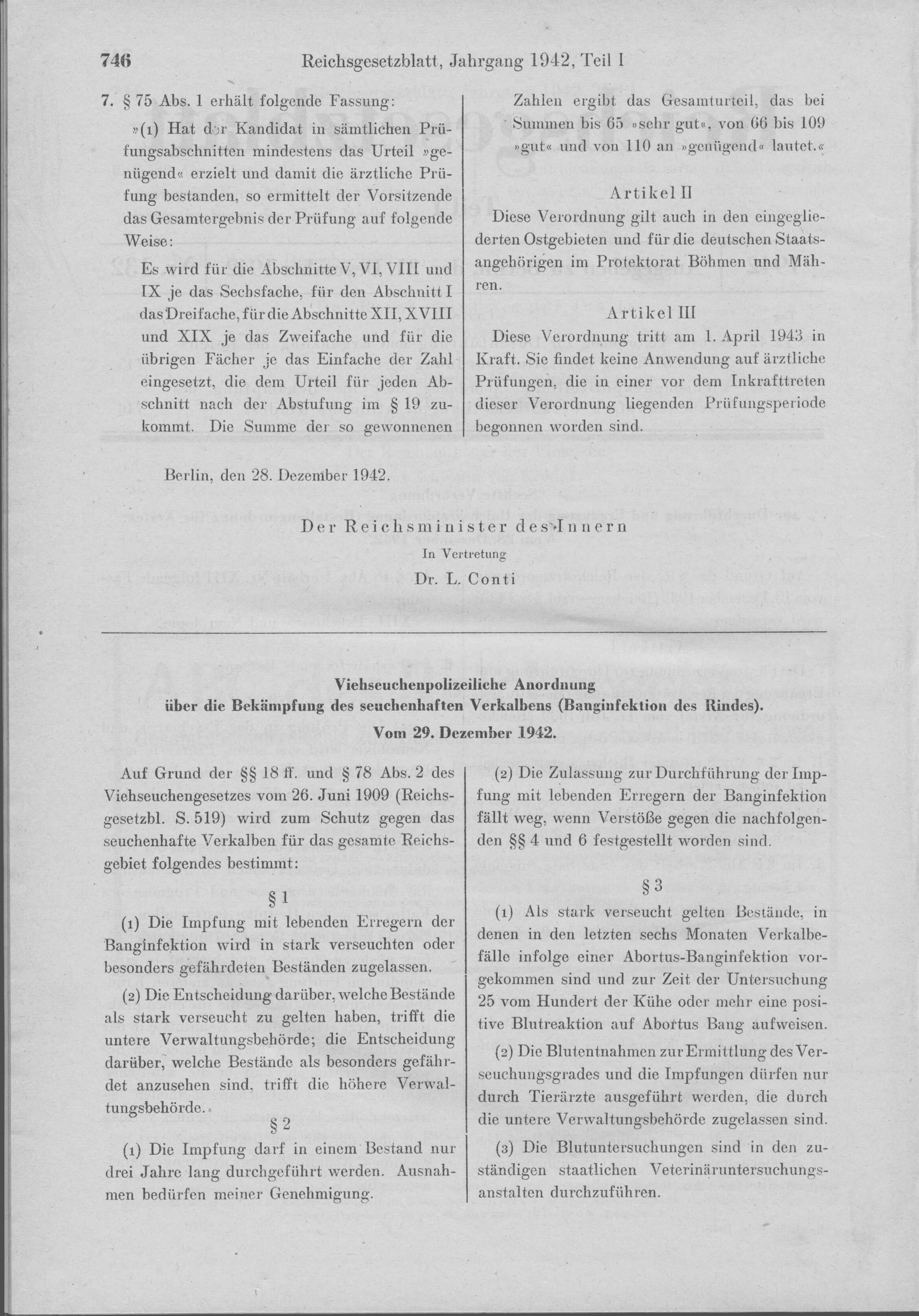 Scan from the Imperial Law Gazette of Germany, 1942, part 1